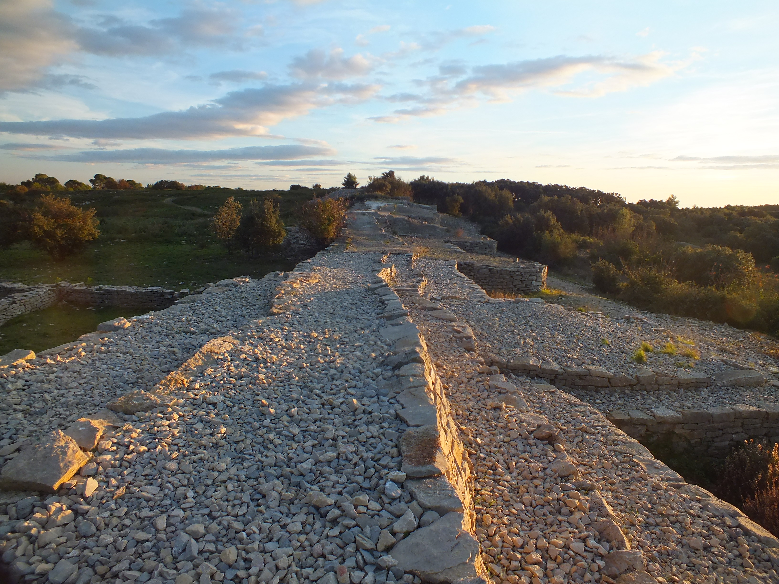 Ambrussum is a Roman archaeological site in Villetelle, near Lunel, Hérault, the Via Domitia which led over the Pont Ambroix, ran at the foot of the settlement. There were ramparts around the Oppidum and later the Romans laid a paved road from the south gate to the east gate. There are visible traces of Roman cart tracks. Part of the ramanrts have disappeared, but other have been re-constructed.